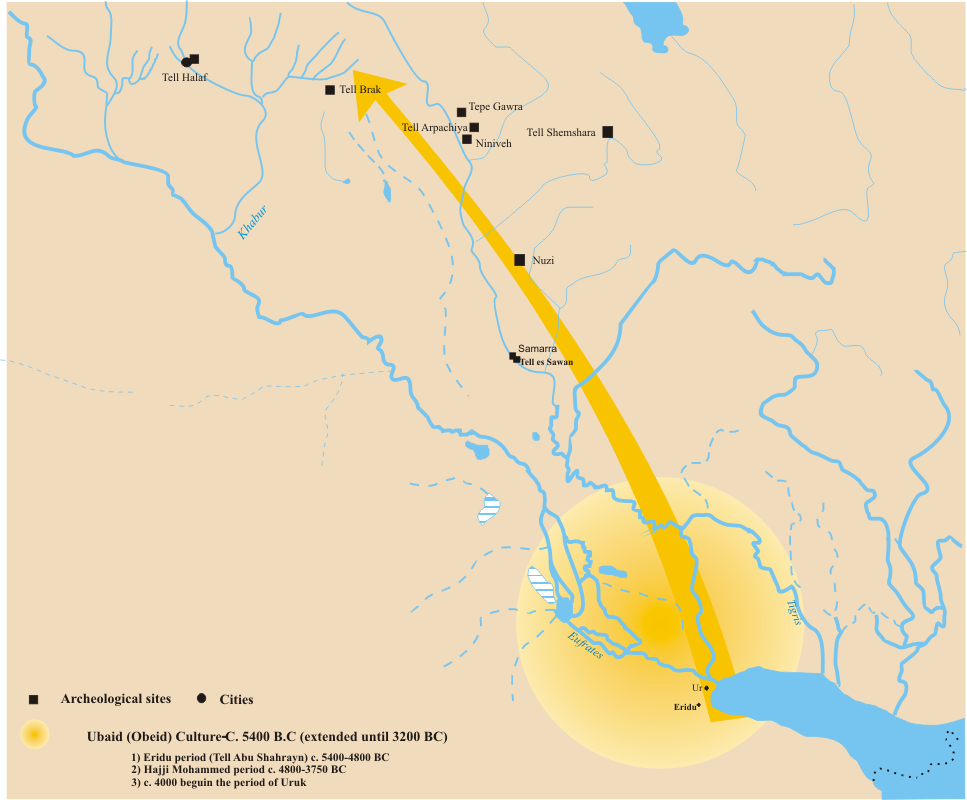 Ubaid or Obeid Culture